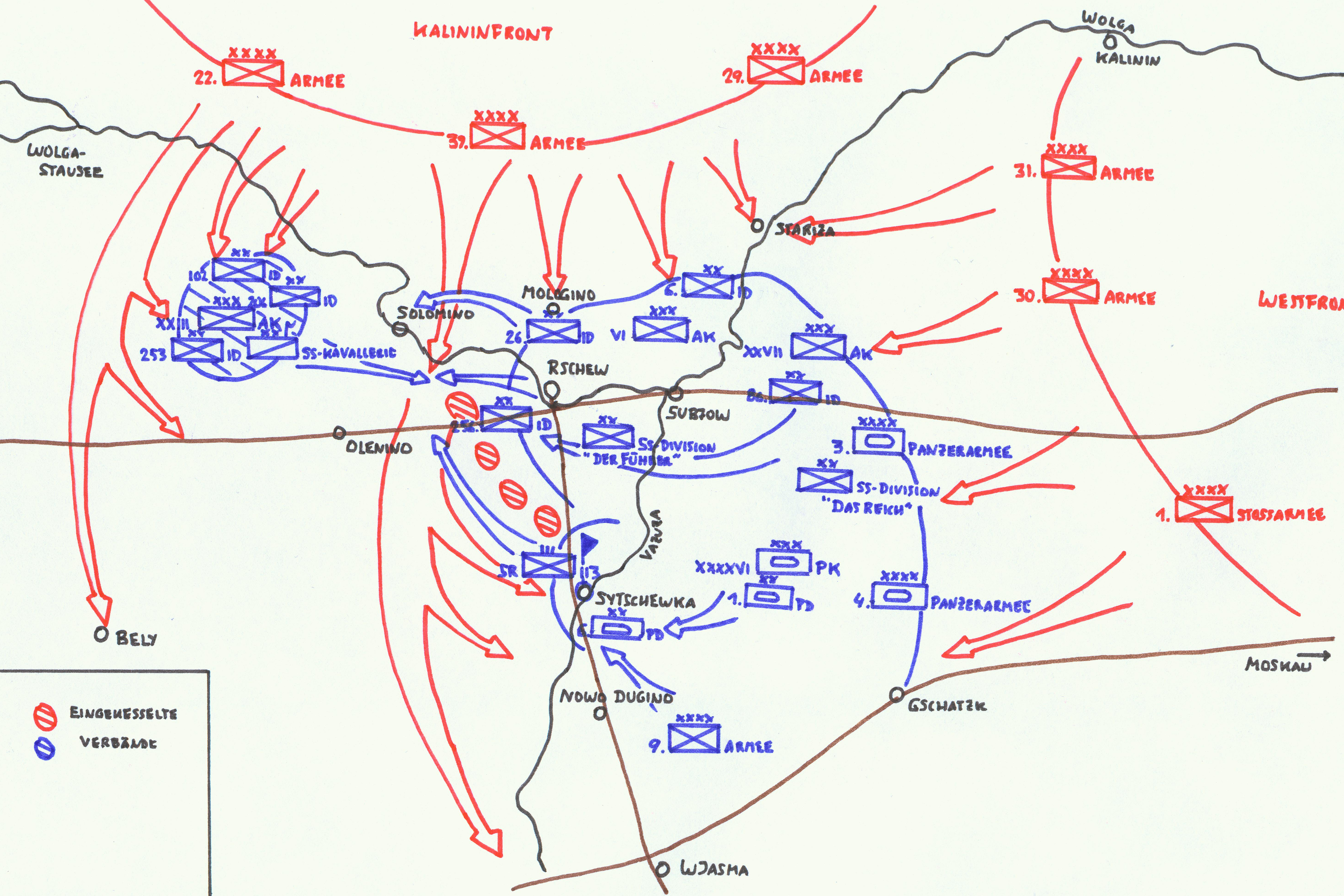 sketch draw-out battle of Rzhev